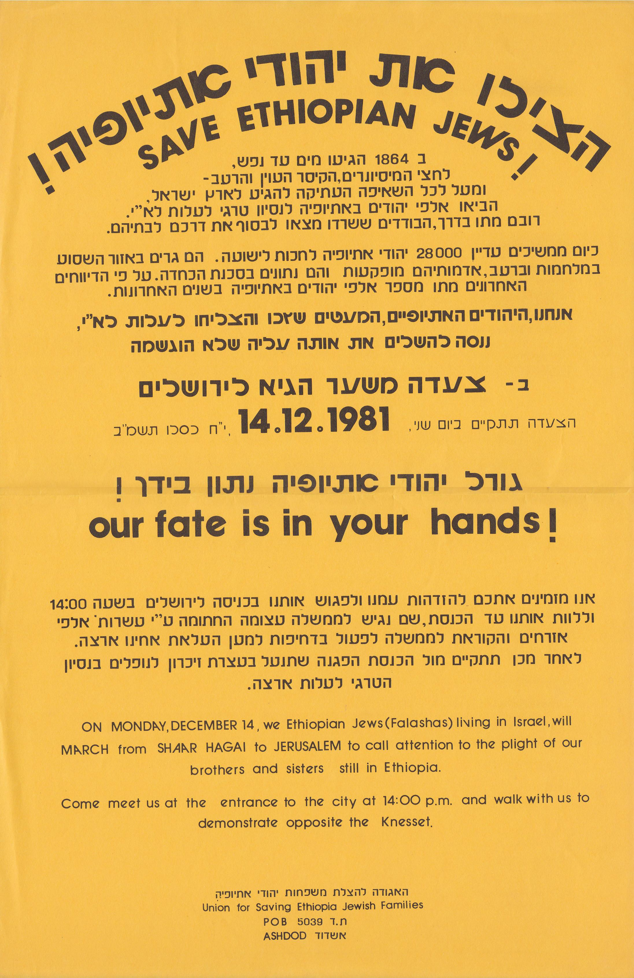 Poster for immigration from Ethiopia (1981)